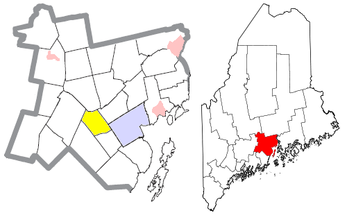 Map of the divisions of Waldo County, Maine, United States, with the town of Morrill highlighted in yellow. The city of Belfast is light blue; other towns are white; and pink areas are census-designated places within towns.